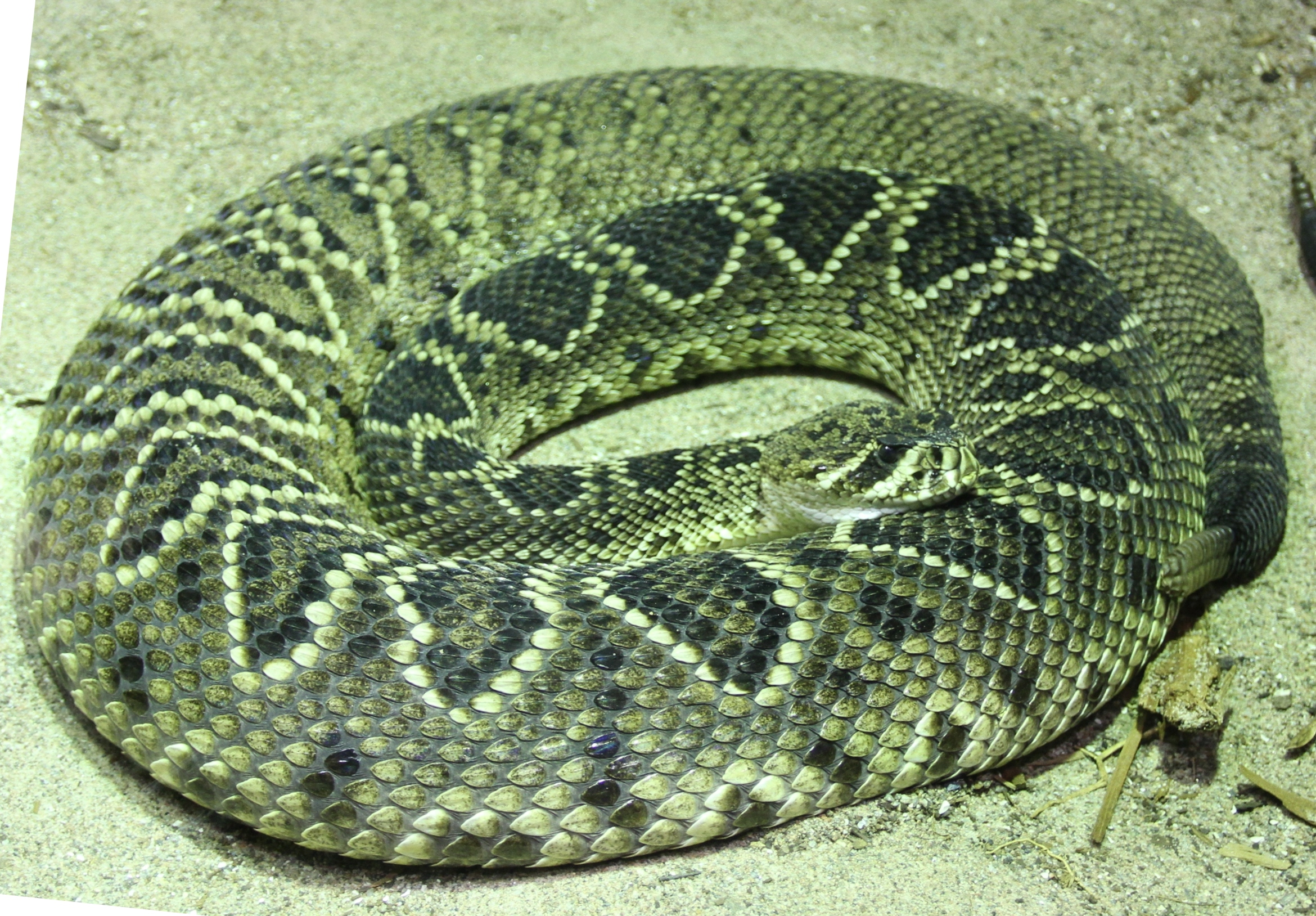 Crotalus adamanteus is a kind of diamond rattlesnake. This specimen is in the Universeum Science Park, Gothenburg, Sweden.